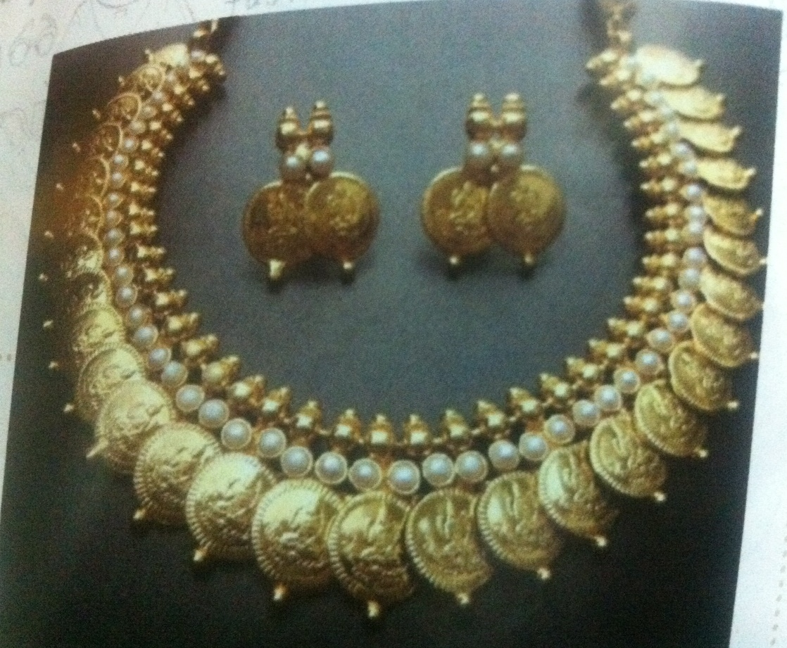 laxmi haar